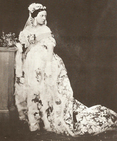 Queen Victoria in court dress, photographed by Roger Fenton 11 May 1854 after a Drawing Room. This is not her wedding gown, though it is often mistakenly claimed to be.